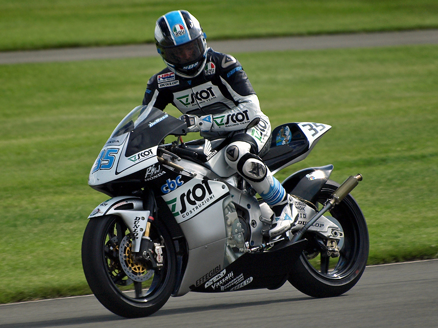 MotoGP 250cc Scot Racing Team 250cc